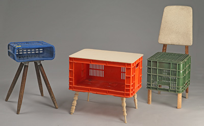 Furniture made from milk crates. Designer: Naty Moskovich.